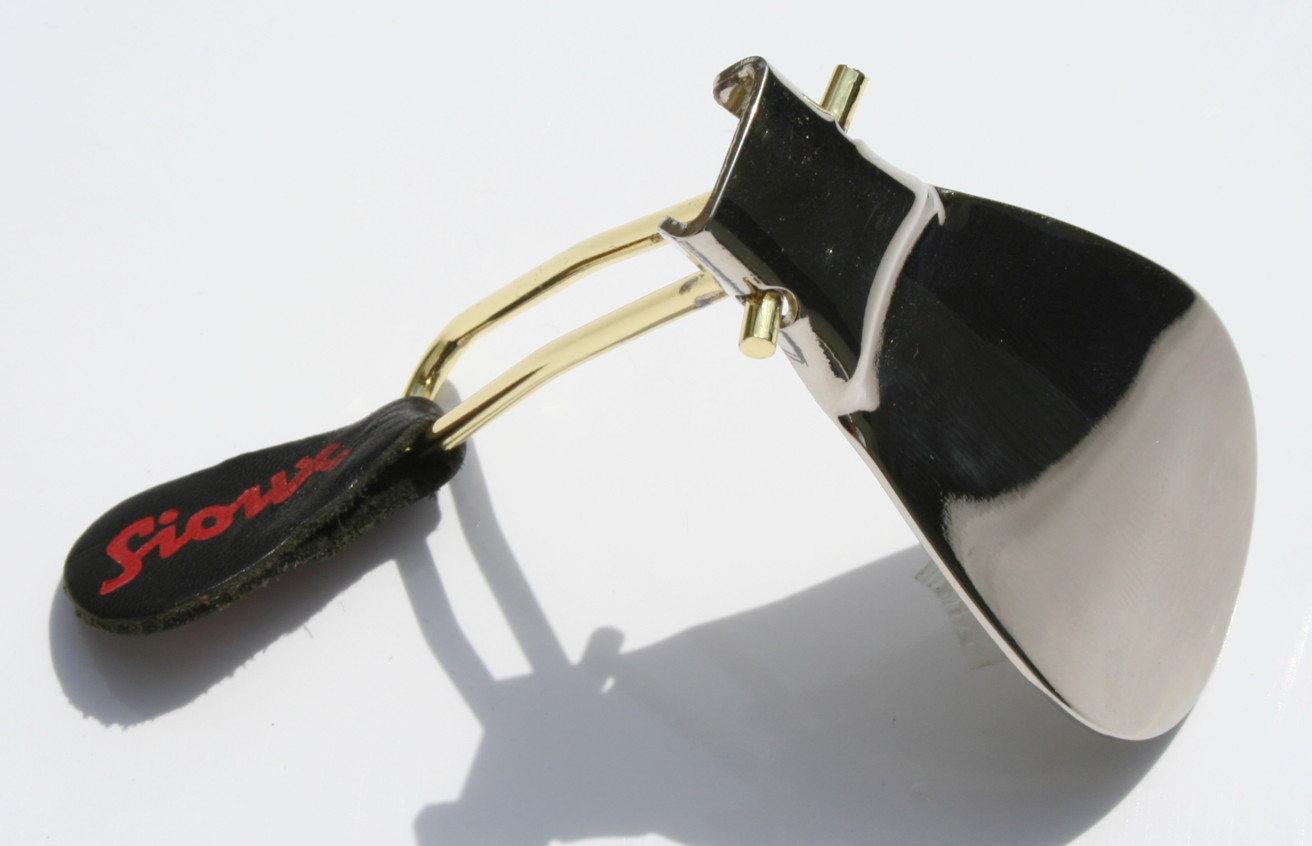 shoe horn for travelling